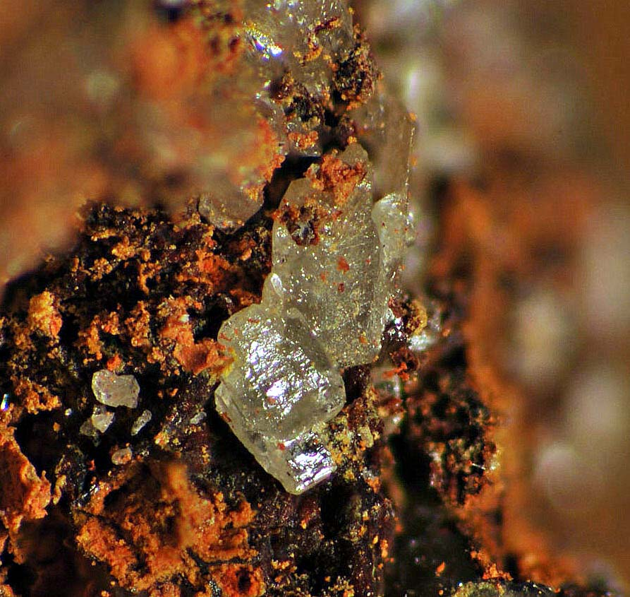 Exceptionally well crystallized specimen of the very rare copper iodide marshite(CuI) from this already famous Russian deposit: Rubtsovskoe Deposit, Altaiskii Krai, Western Siberia, Russian Federation. Marshite occurs as complex beige crystals in a contrasting brown matrix. For an excellent review on the locality see the Mineralogical Record Vol.45, nº4, July-August 2014 article, where it tells that the marshite occurrence inside the mine was only 6 m long ! (p.409). In addition, the Munich Show report in the Mineralogical Record (Vol.46, num 1, 2015, p.168) tells that "all mining of ore has been ceased, this great locality has reached the end of the line". For this reason, future discoveries of marshite is probably unlikely